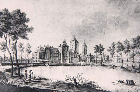 Former Castle of the Dukes of Arenberg at Enghien